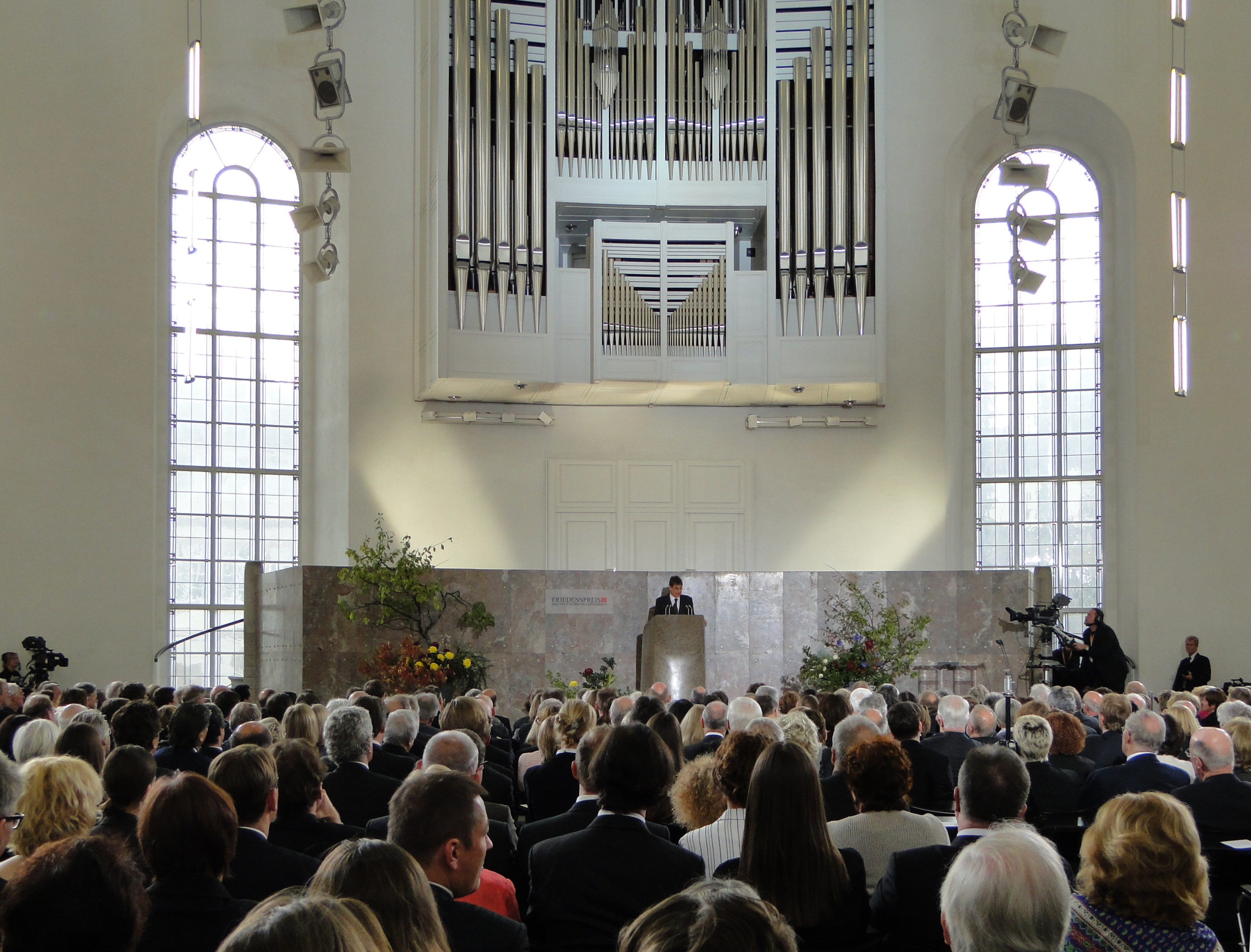 Claudio Magris during his speech at "Paulskirche" in Frankfurt am Main, 2009.